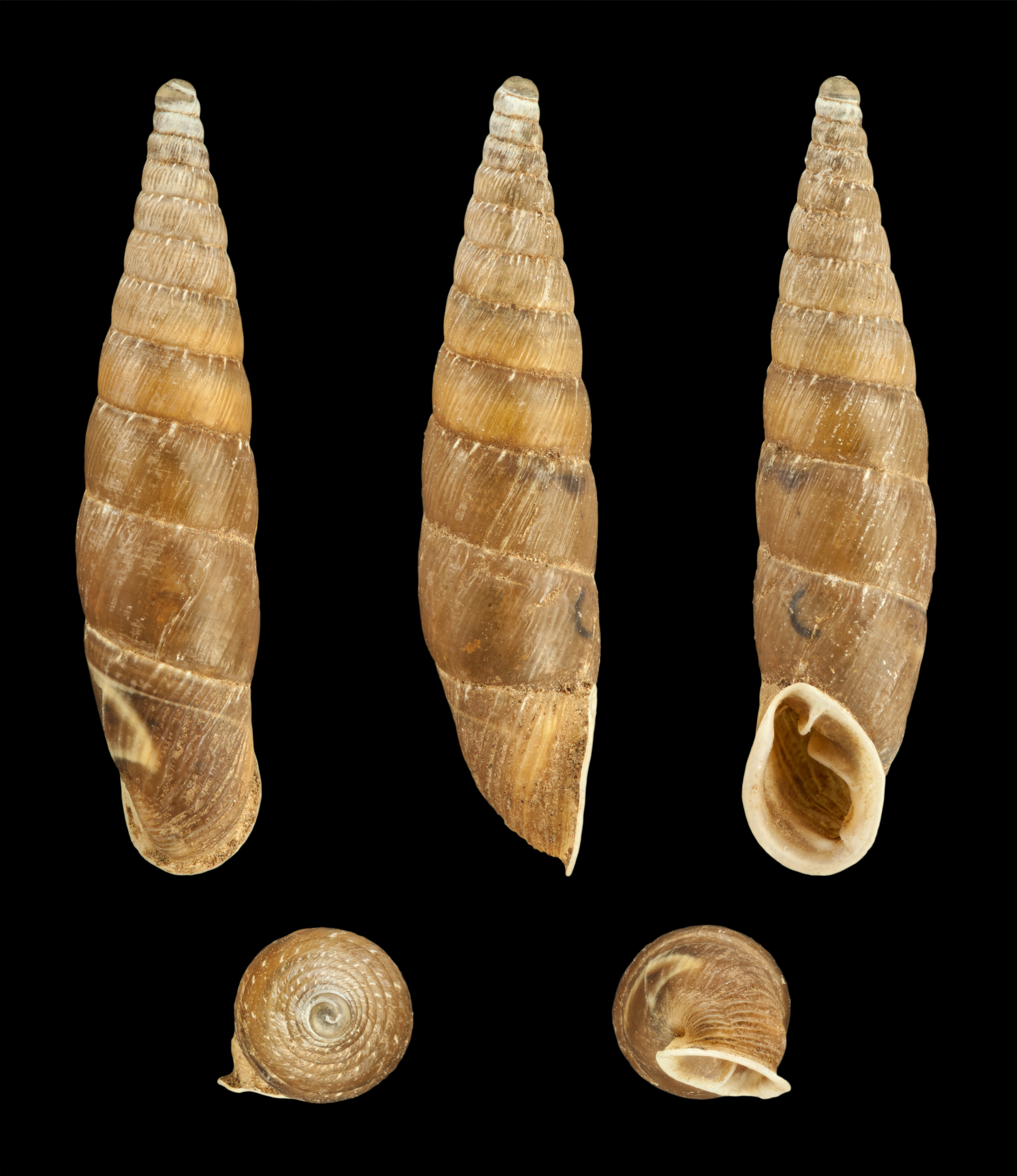 Charpentieria itala albopustulata (Cristofori & Jan, 1832); Length 1.9 cm; Originating from Chiusa di Ceraino, Vallagarina, Italy; Shell of own collection, therefore not geocoded. Dorsal, lateral (left side), ventral, back, and front view.